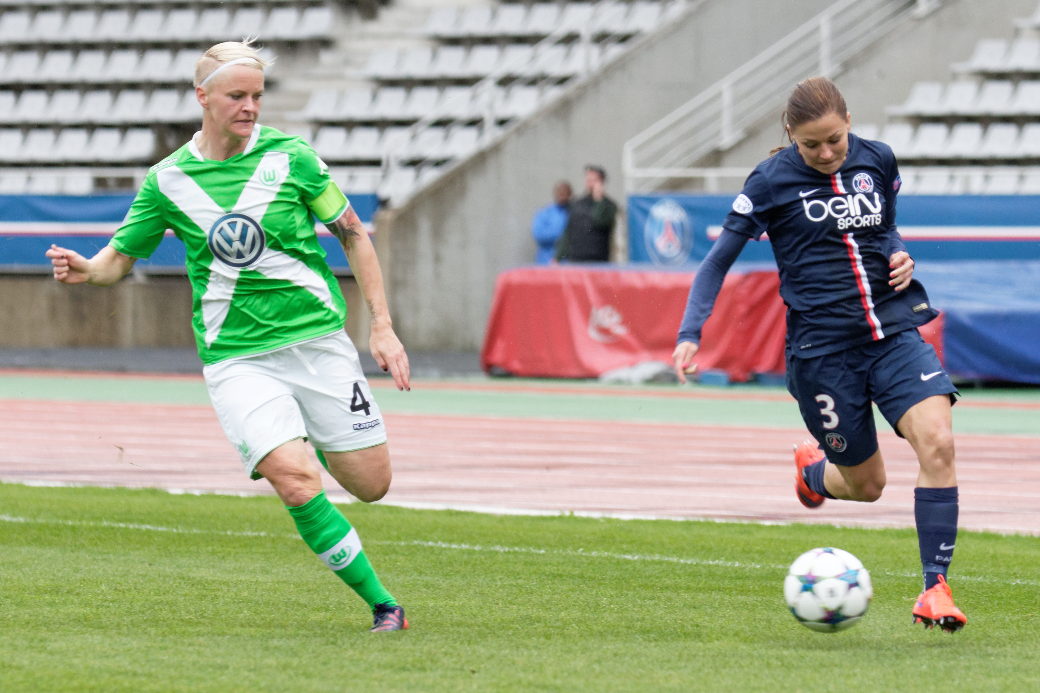 UEFA Women's Champions League, PSG - Wolfsburg, 26 April 2015.